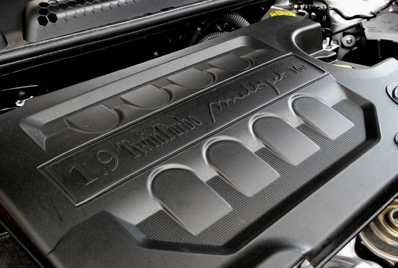 1.9 Twinturbo diesel from Delta